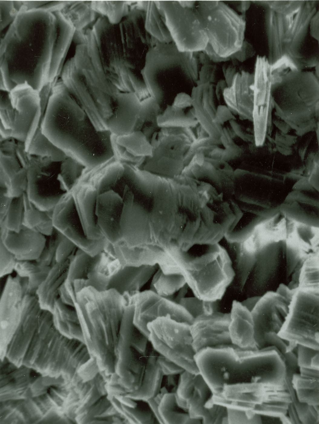 Kaolinite Kaolinite fills pore spaces created by dissolution and (or) replacement of framework grains, in sandstone from the Nanushuk Group. Books of Hexagonal kaolinite crystals growing in pore space. Sample 78ACh41, Marmot syncline; magnification, X1340, SEM. Central North Slope, Alaska. Published as Figure 44C in U.S. Geological Survey. Bulletin 1614. 1985.